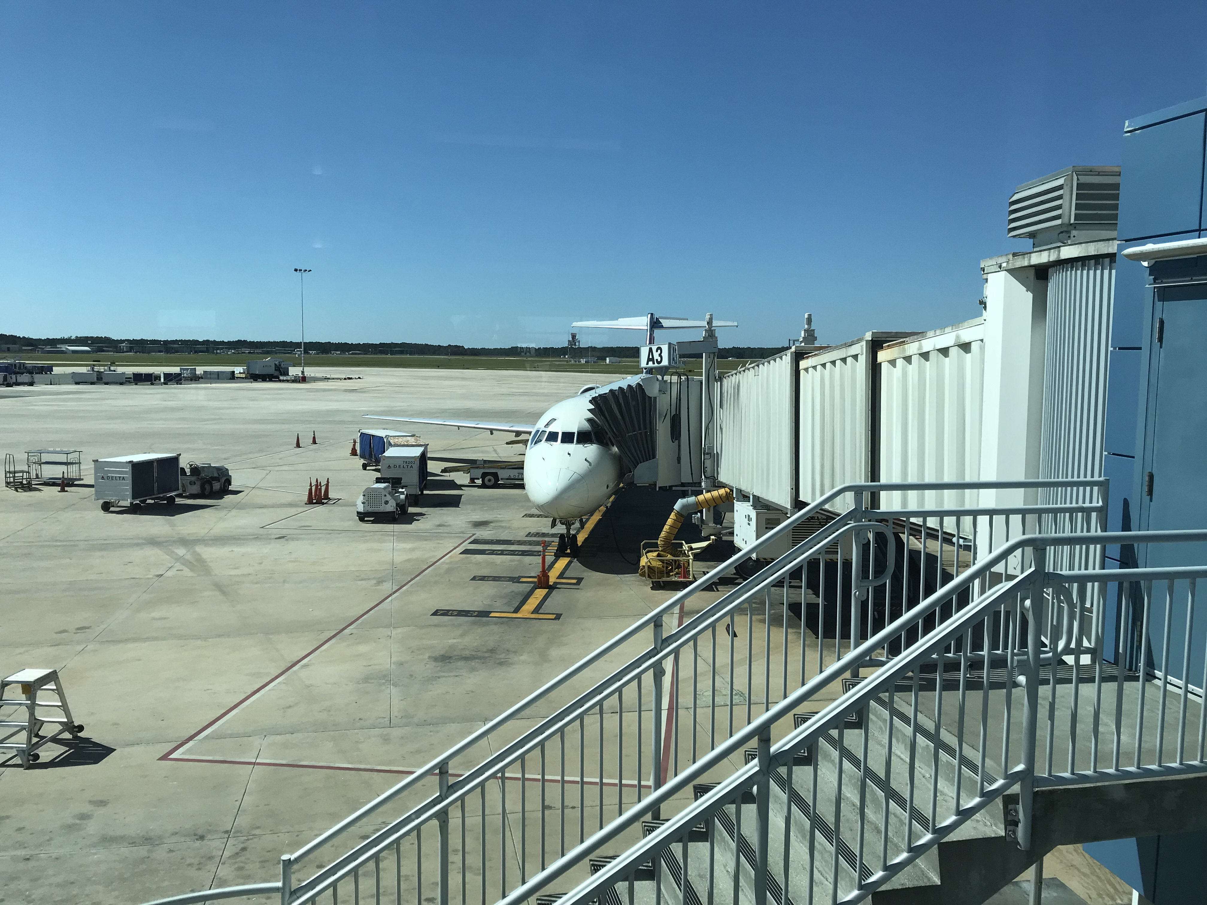 JAX Airport Gate A3 with Plane Located at: Jacksonville International Airport Gate A3 (30°29'34.2"N 81°41'09.4"W) Flight to: MSP By: Delta Airlines